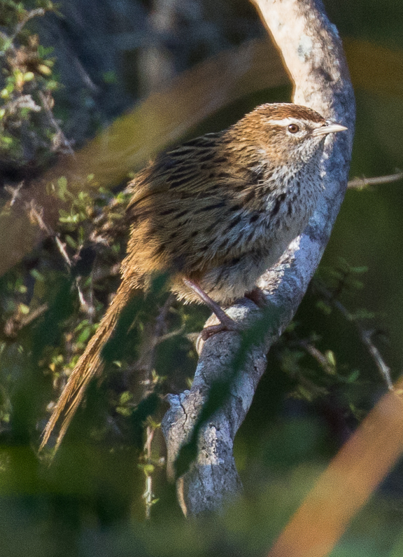 New Zealand Fernbird - New Zealand_FJ0A4109